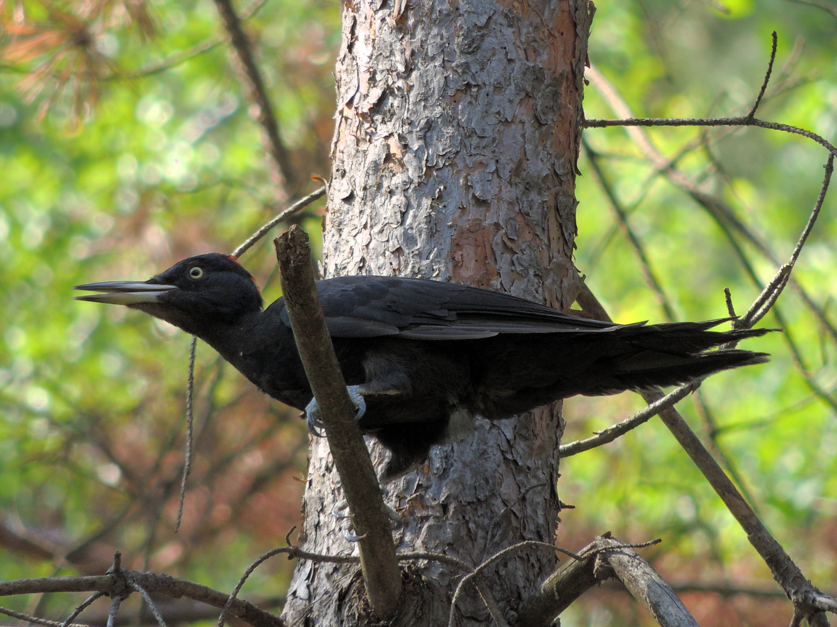 Black Woodpecker (Dryocopus martius), Lempeş hill near Sânpetru, Braşov County, Romania